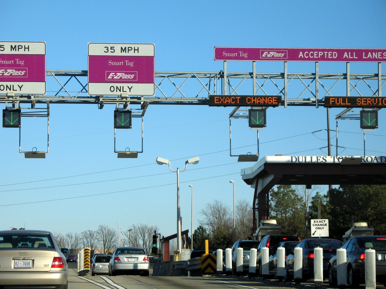 A closer up image of the Dulles Toll Road main toll plaza and the Smart Tag lanes.